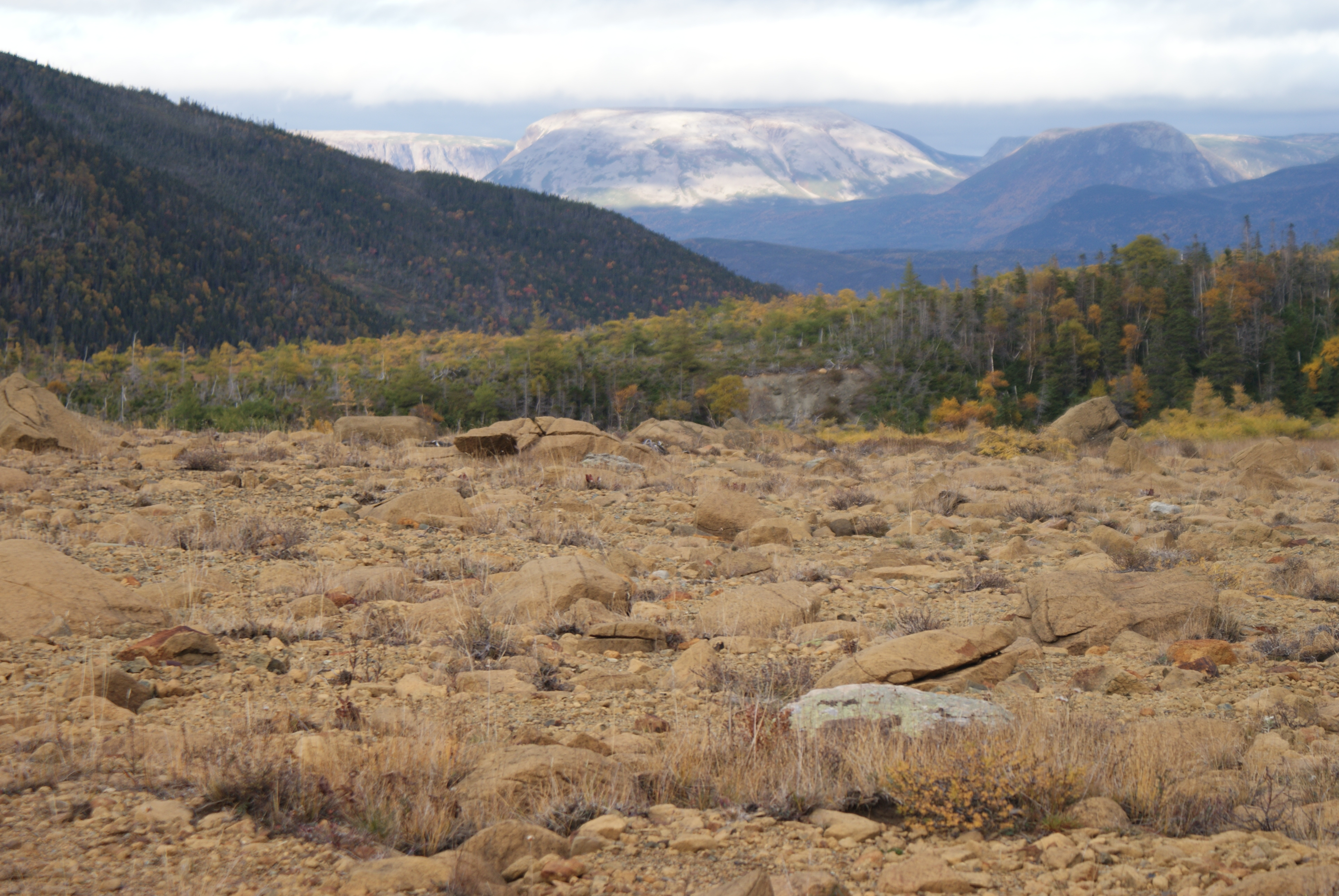 Picture taken in the Tablelands in Gros Morne National Park on Newfoundland, Canada. Shows Gros Morne Mountain in the background.